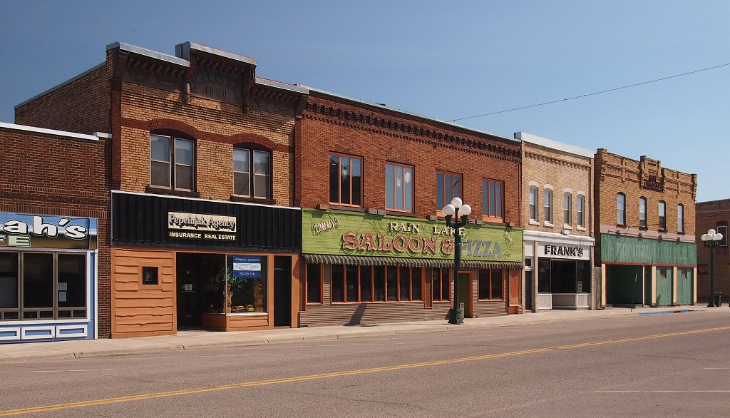 East end of the 200 block of Chestnut Avenue, Virginia Commercial Historic District, Virginia, Minnesota. View left to right is the 1900 Pakkala Building, an unnamed building constructed c. 1902 (now the Rainy Lake Saloon and Pizza), a 1900 commercial building (now Frank's Bar), and the 1900 Svea Block. Viewed from the southwest.